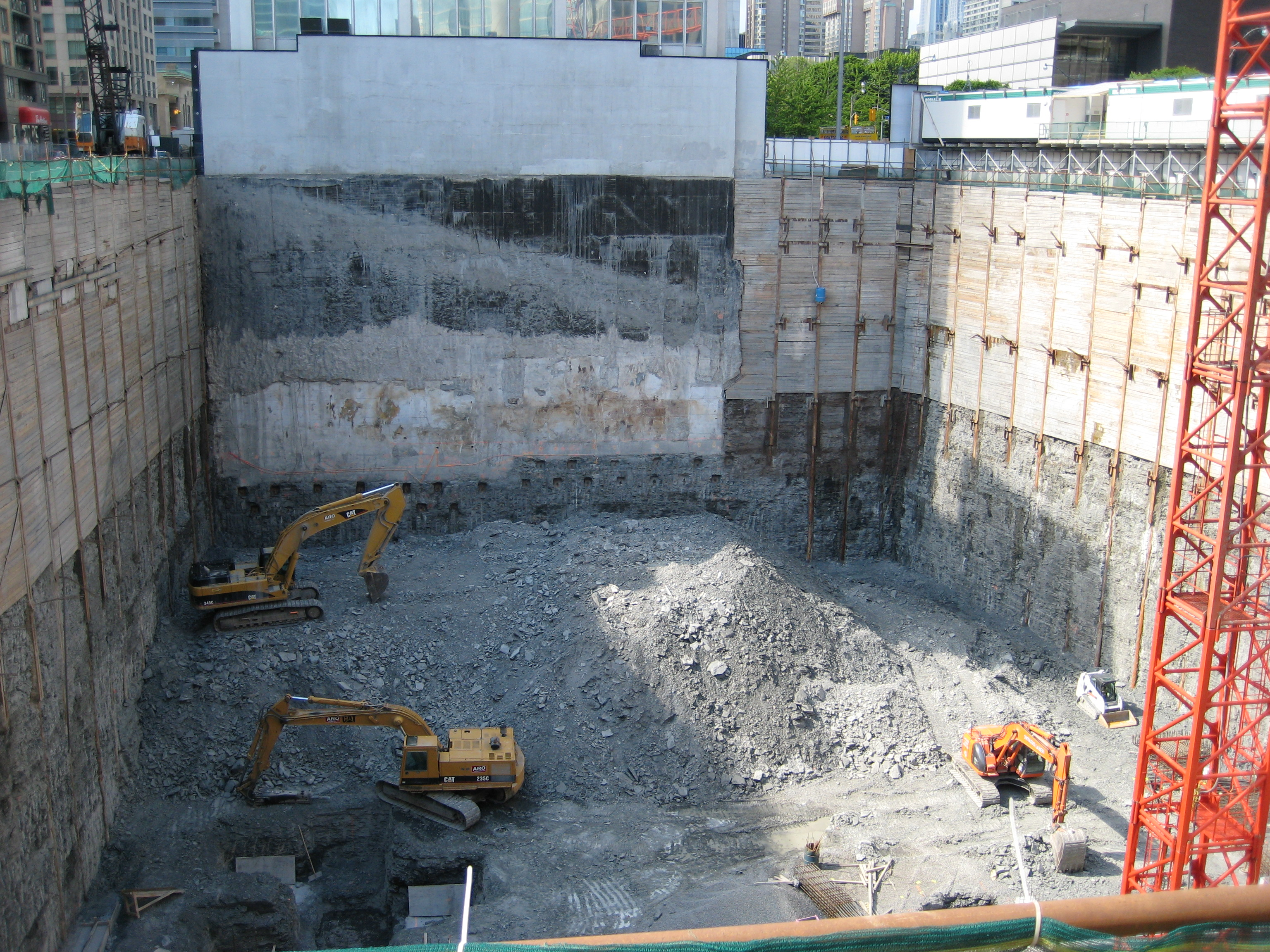 Shangri-La Toronto